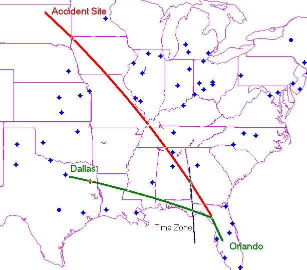 Ground track of N47BA prior to crash